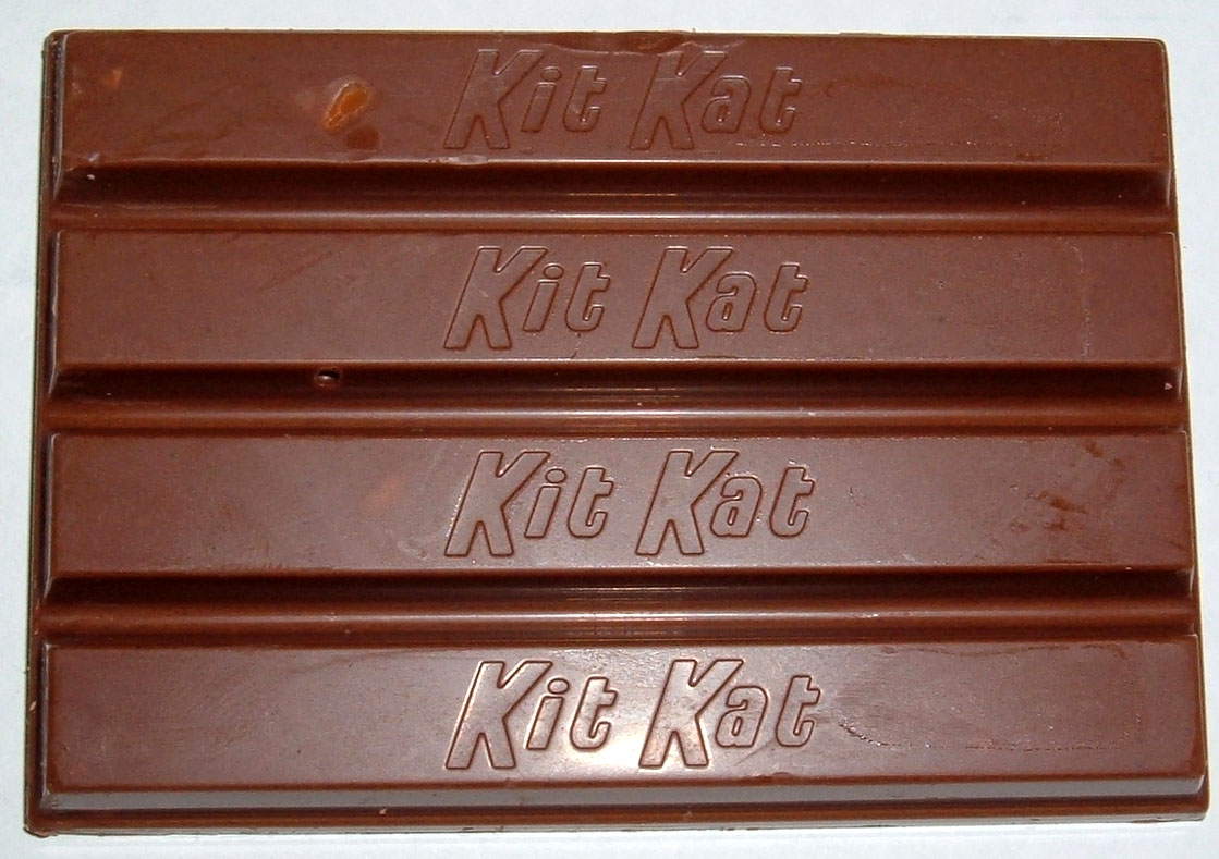 Original flavor KitKat purchased in Atlanta, GA, USA in Feb. 2005